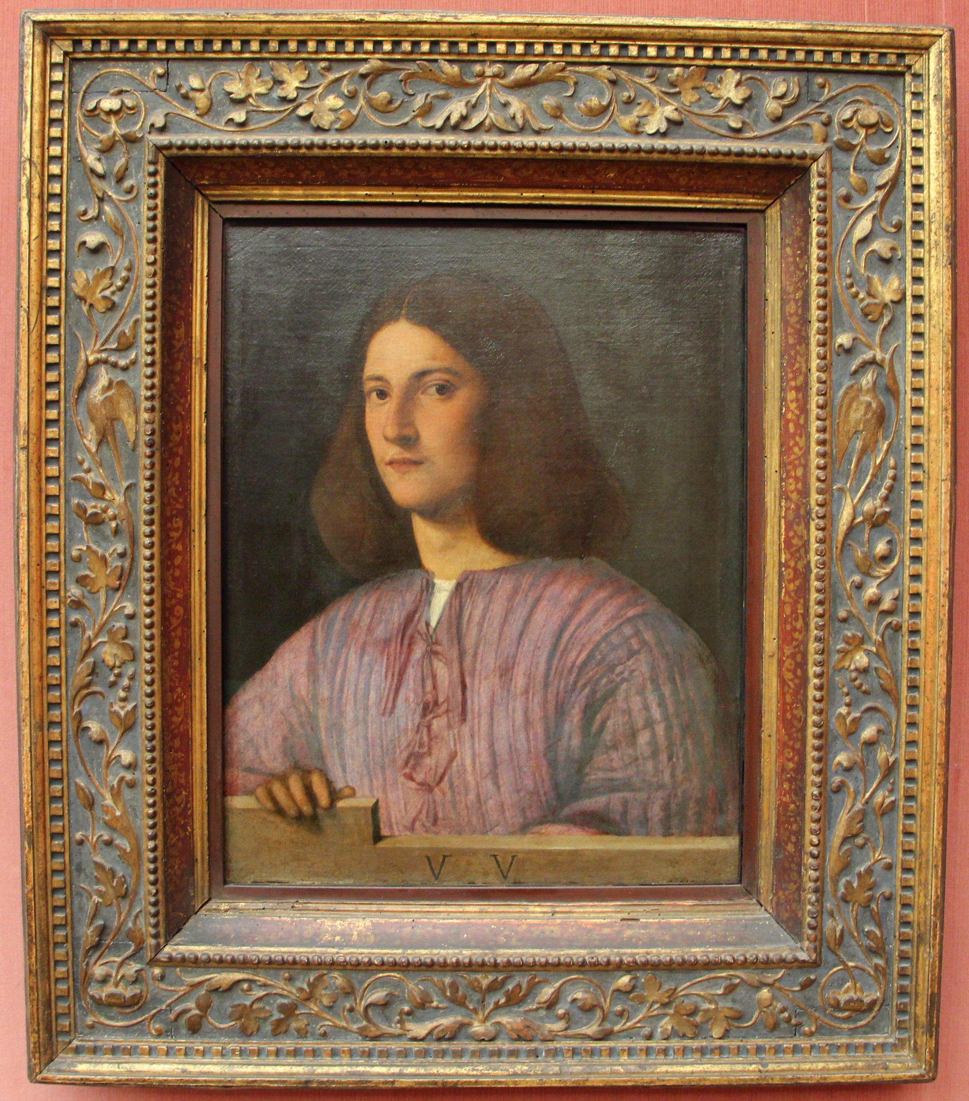 Italian Renaissance paintings in the Gemäldegalerie, Berlin